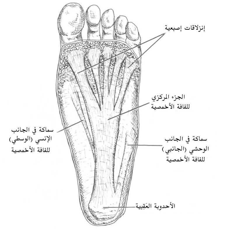 Drawing of the planter fascia of the foot